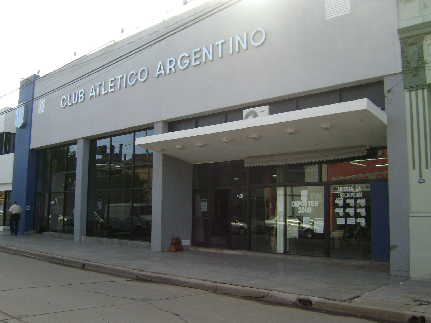 picture of my favourite club